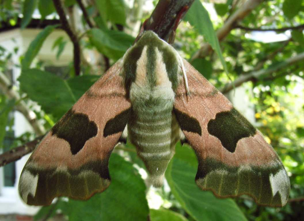 Lime hawk moth, Mimas tiliae